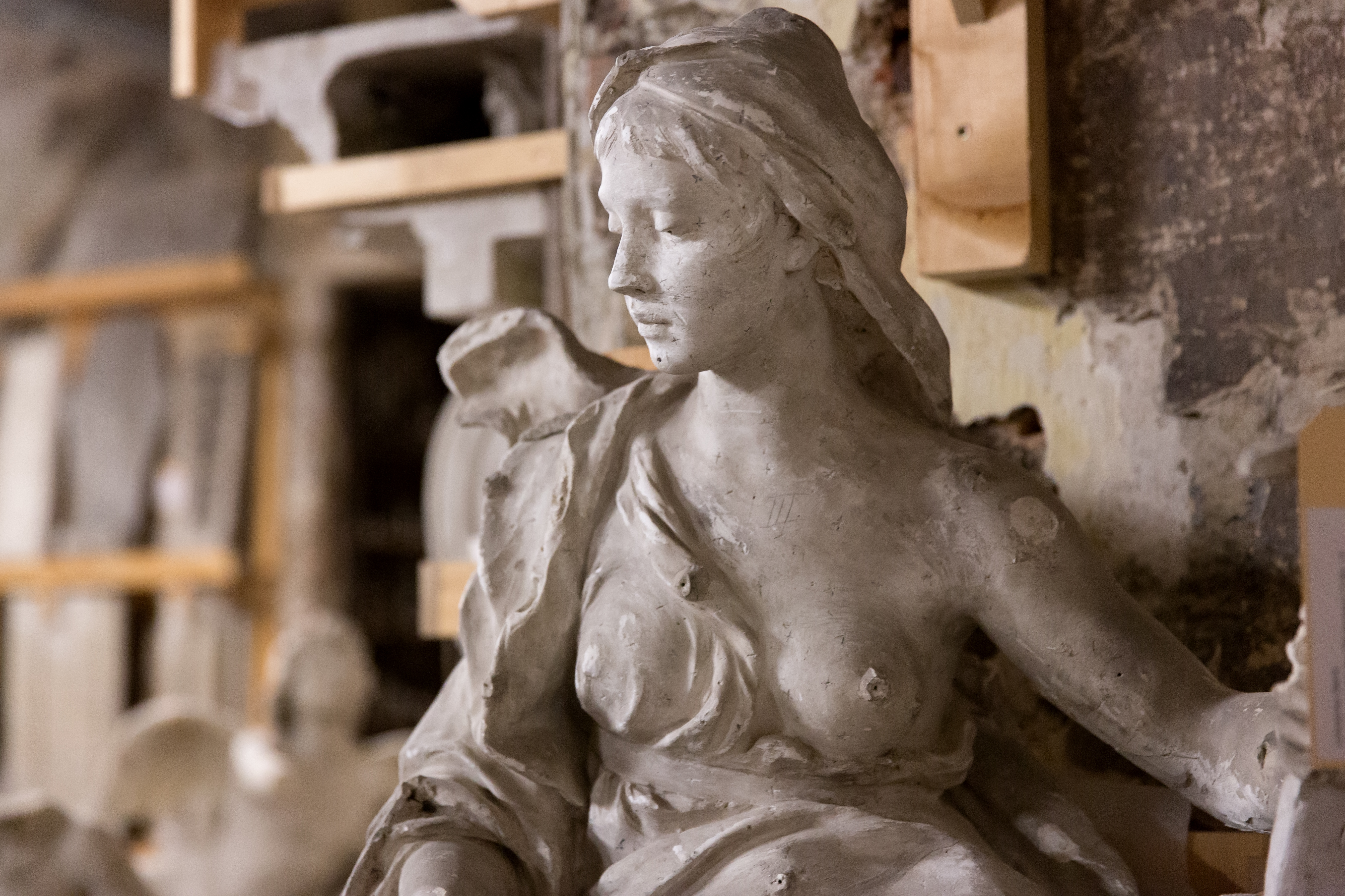 Models made of gypsum of statues, reliefs etc. from the time of Historicism and Art Nouveau (late 19th and early 20th century) for buildings at Ringstraße in Vienna, Austria, stored in the former wine cellar of Hofburg Palace (Leopold Wing). Dieses Bild wurde anlässlich des österreichischen Tags des Denkmals 2015 in Wien eingereicht.